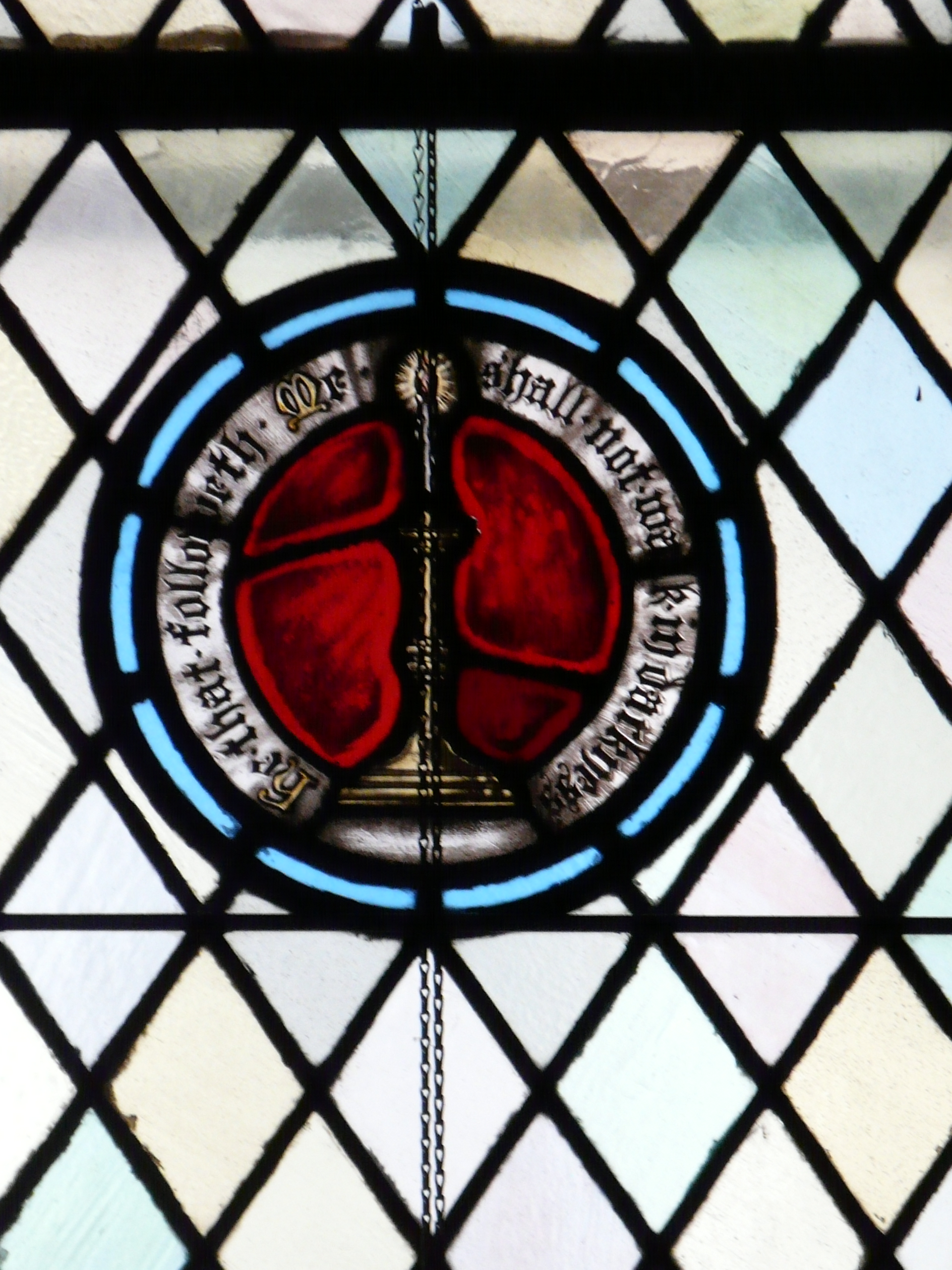 Candle from BRUC Candle Window